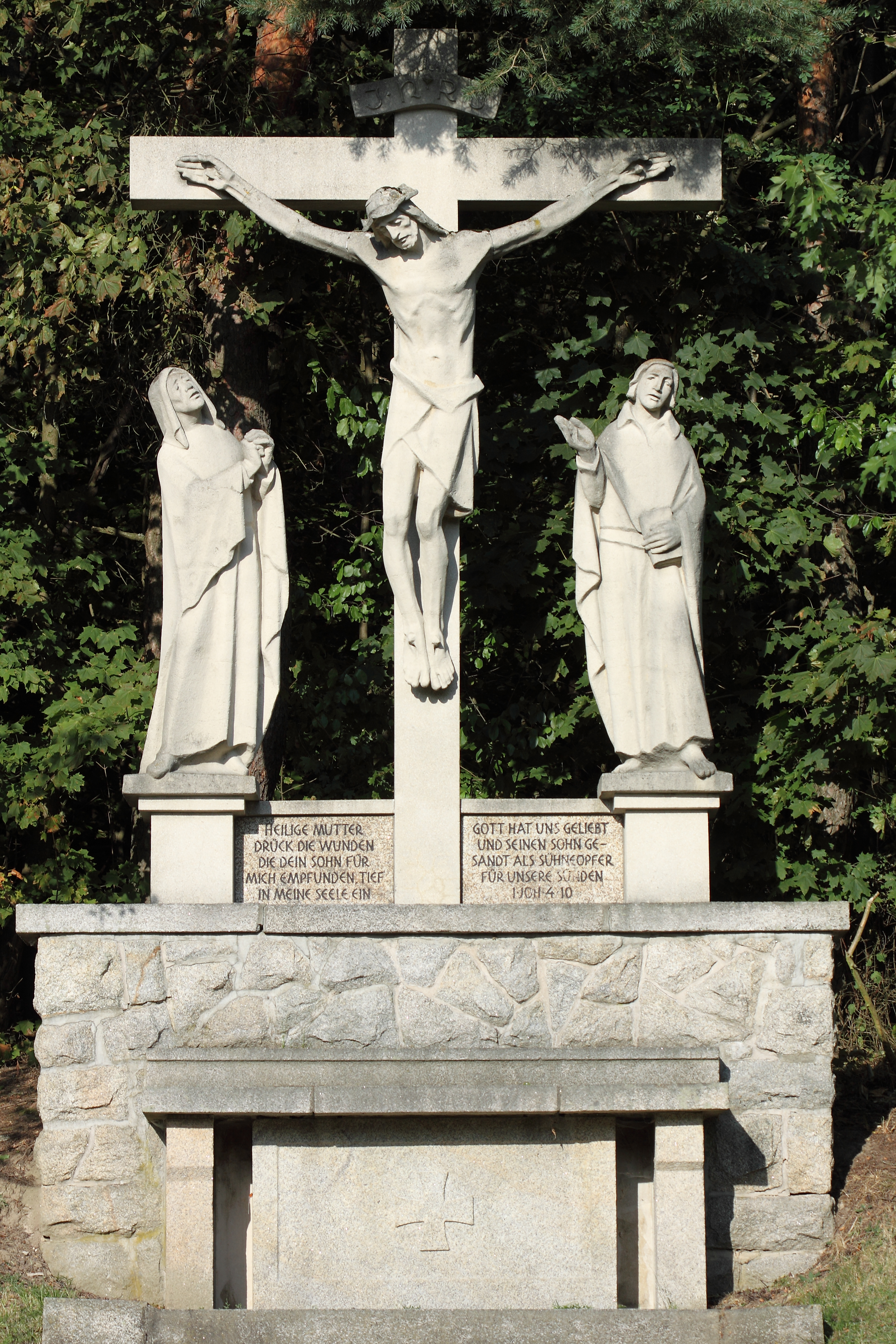 Altar on the Miesberg in the Upper Palatine town of Schwarzenfeld